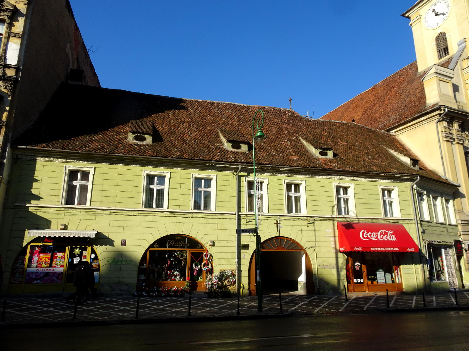 Str Muresenilor, house number 19, Brasov, Romania